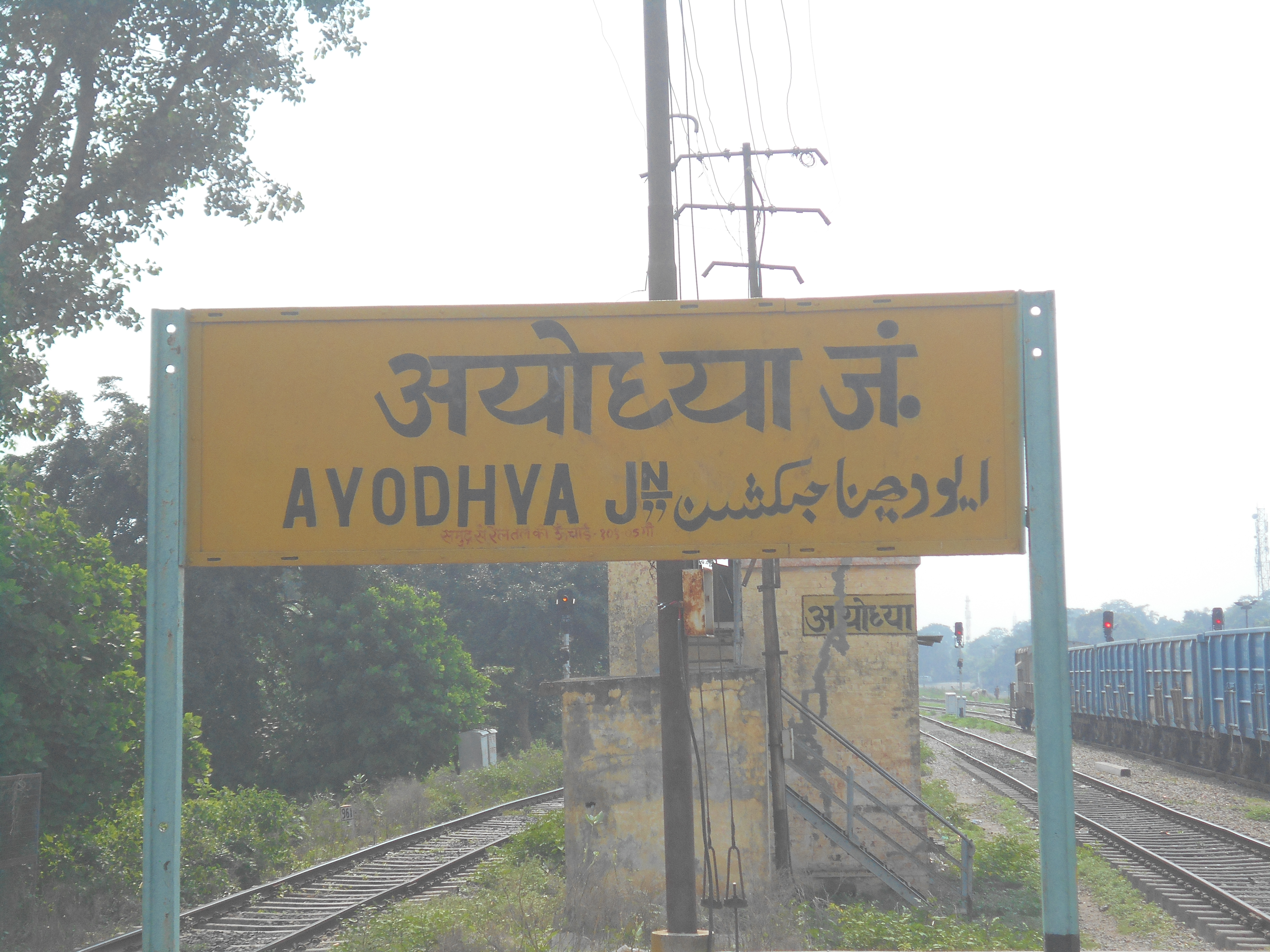 Ayodhya Railway Station Sign Board